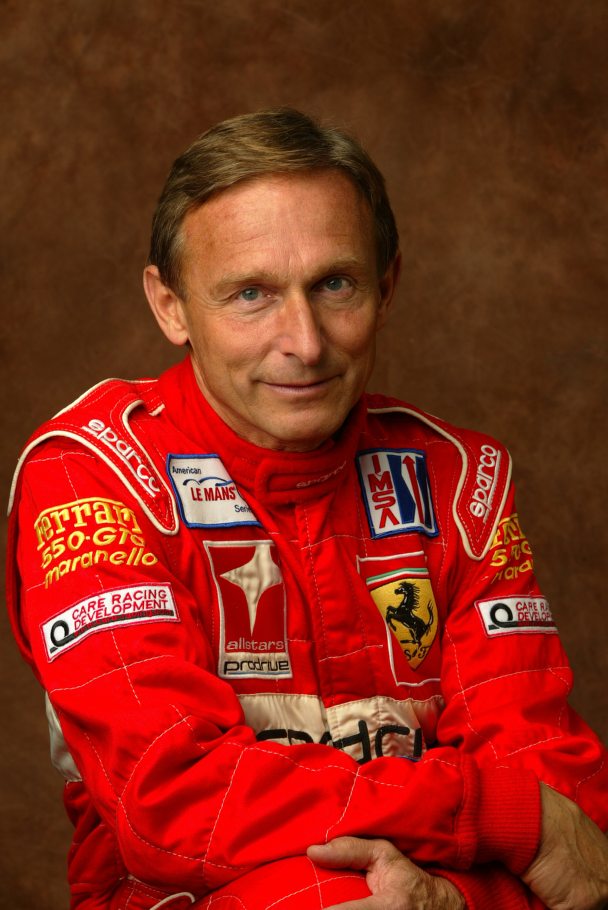 Portrait photo